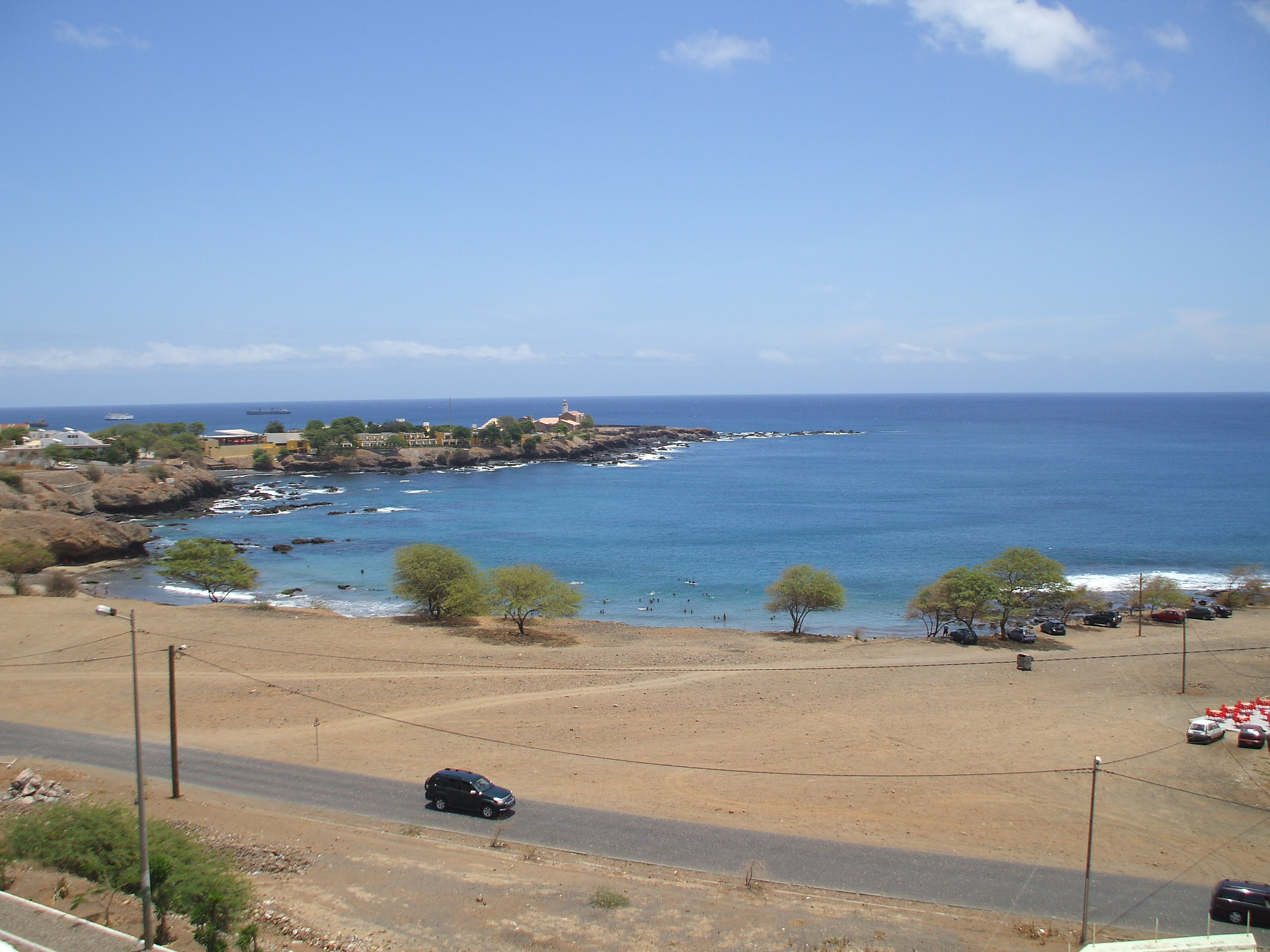 View over Quebra-canela Beach from Achada de Santo António, in Praia